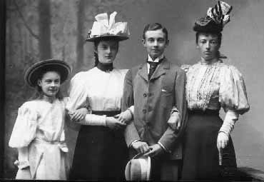 Grand Duchess Anastasia Mikahilovna and her three children